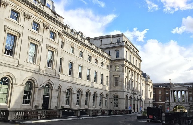 KCL King's Building 3 Final